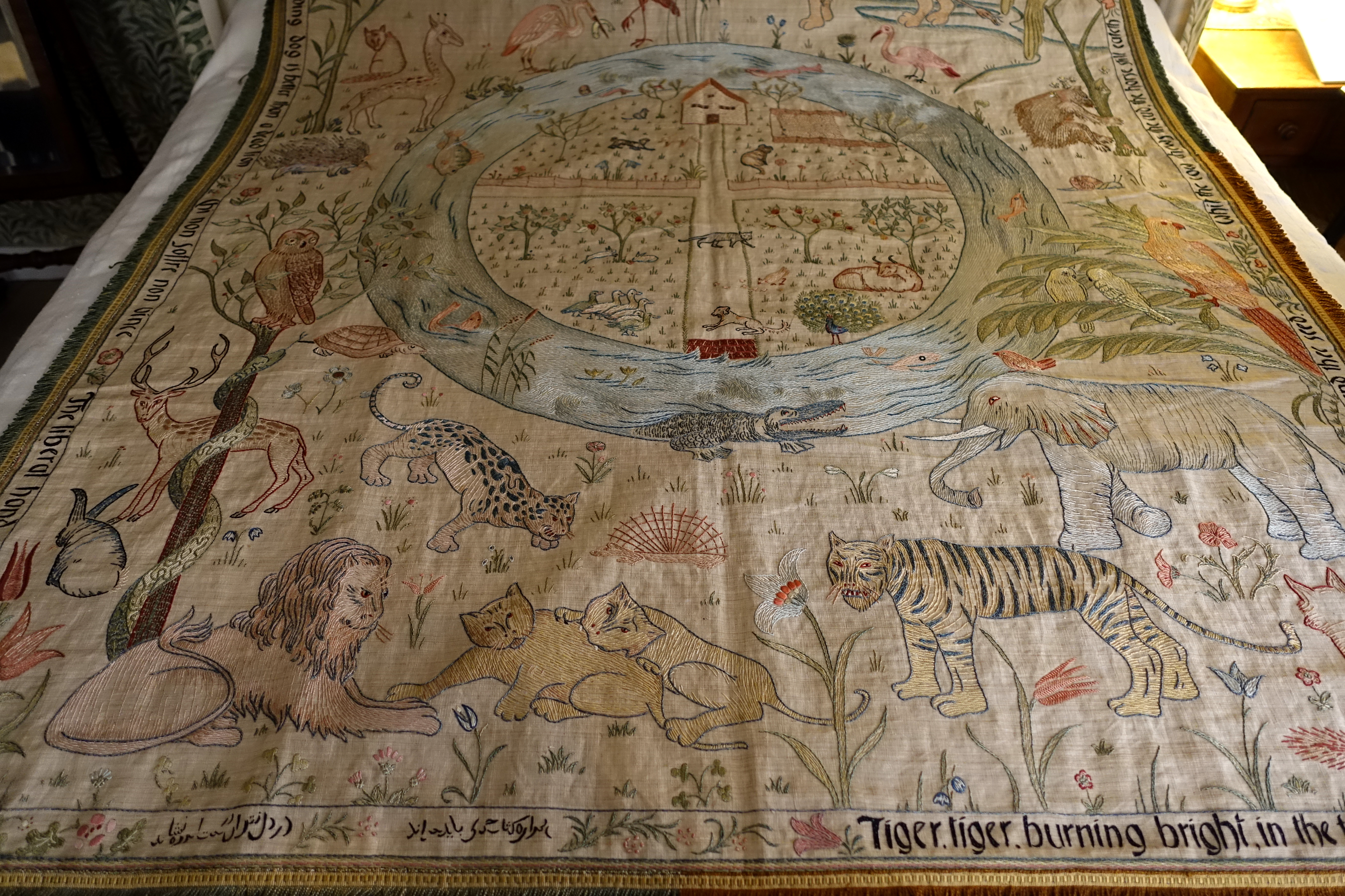 Item on display in Kelmscott Manor - Oxfordshire, England.